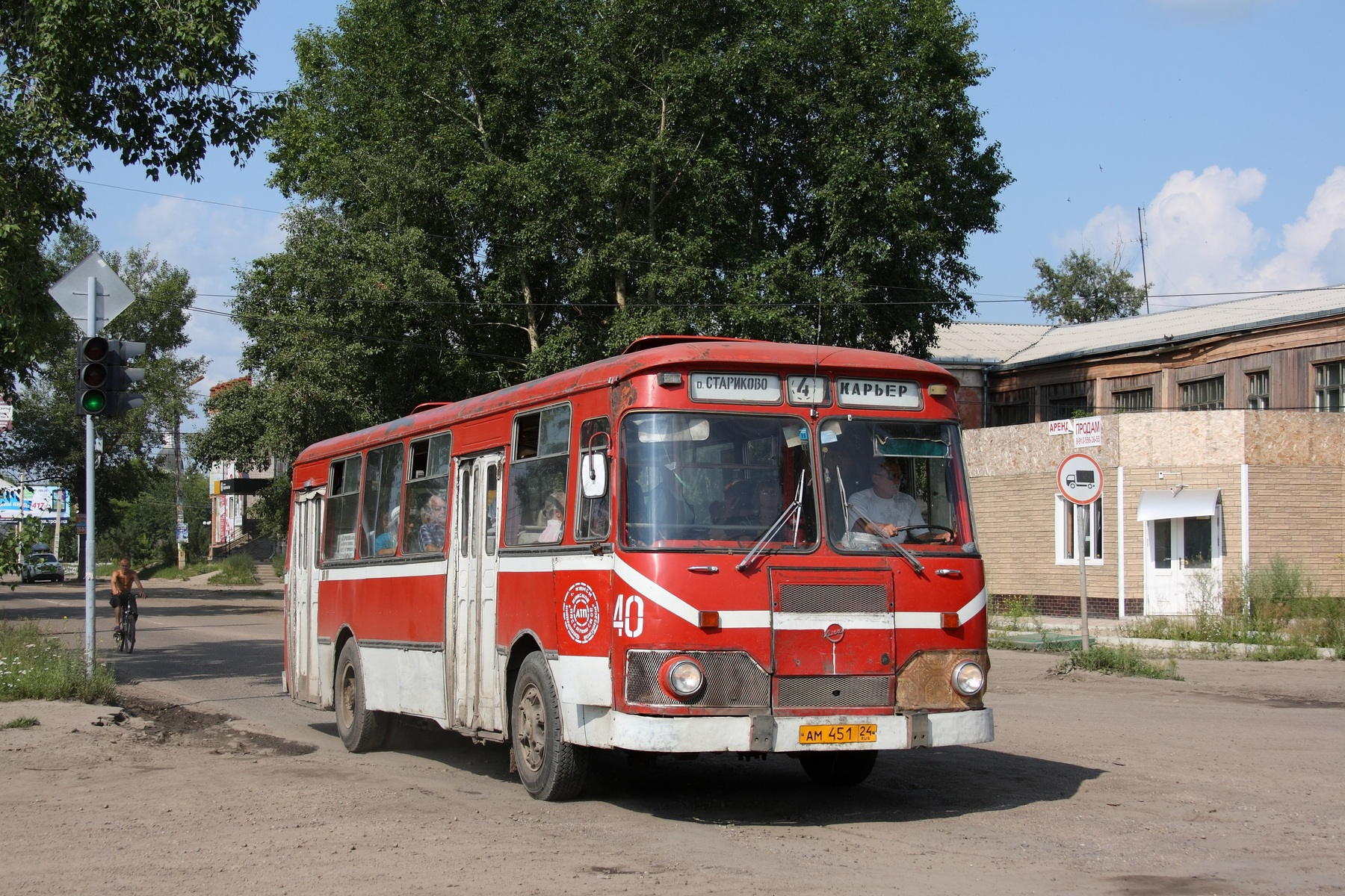 LiAZ-677M in Kansk, Krasnoyarsk krai, Russia